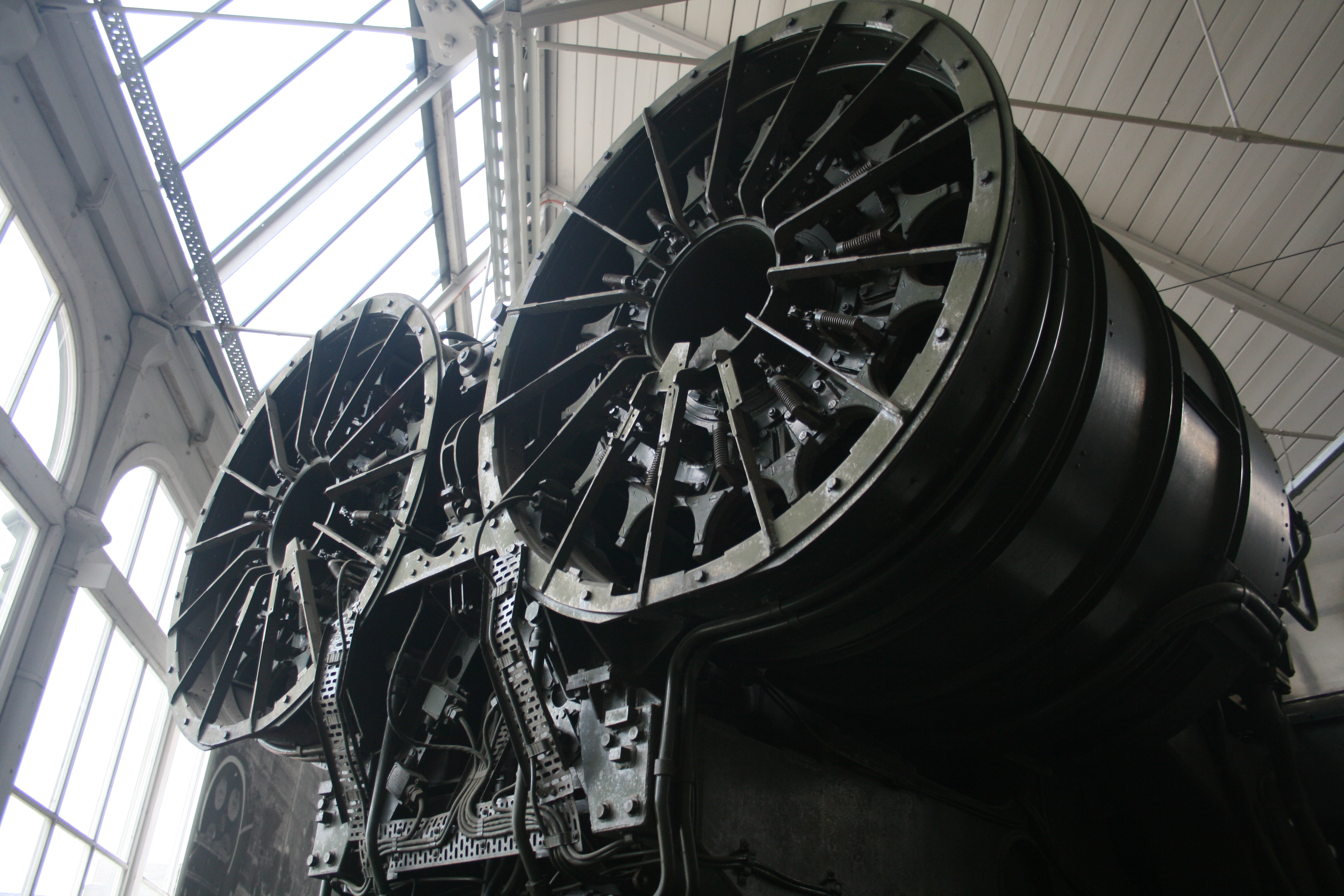 An overall view of the British 1950s AA gun "Green Mace". Taken at the Royal Artillery Barracks, Woolwich.